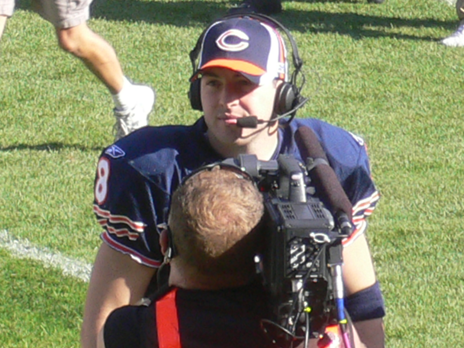 Rex Grossman addresses the press following a 40-7 victory over the Buffalo Bills on 10/8/2006.